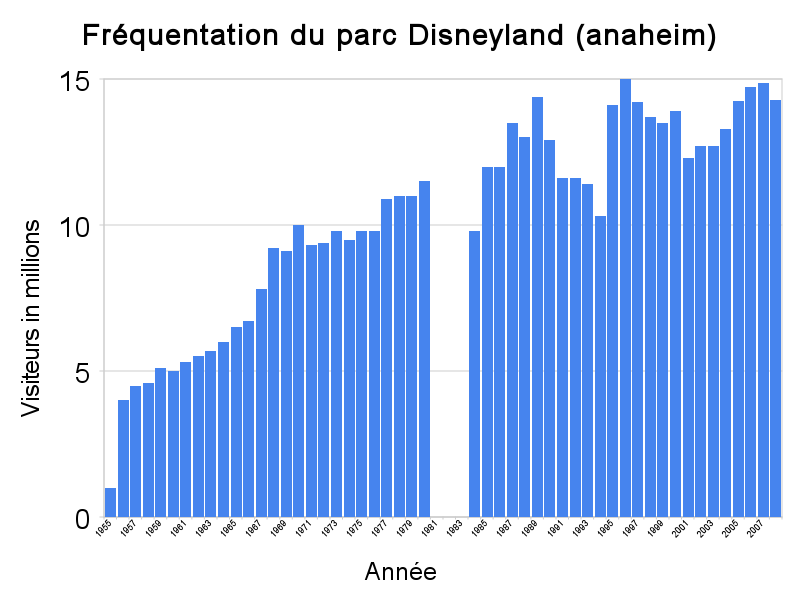 Attendance evolution of Disneyland Theme Park. (Alaso available here)